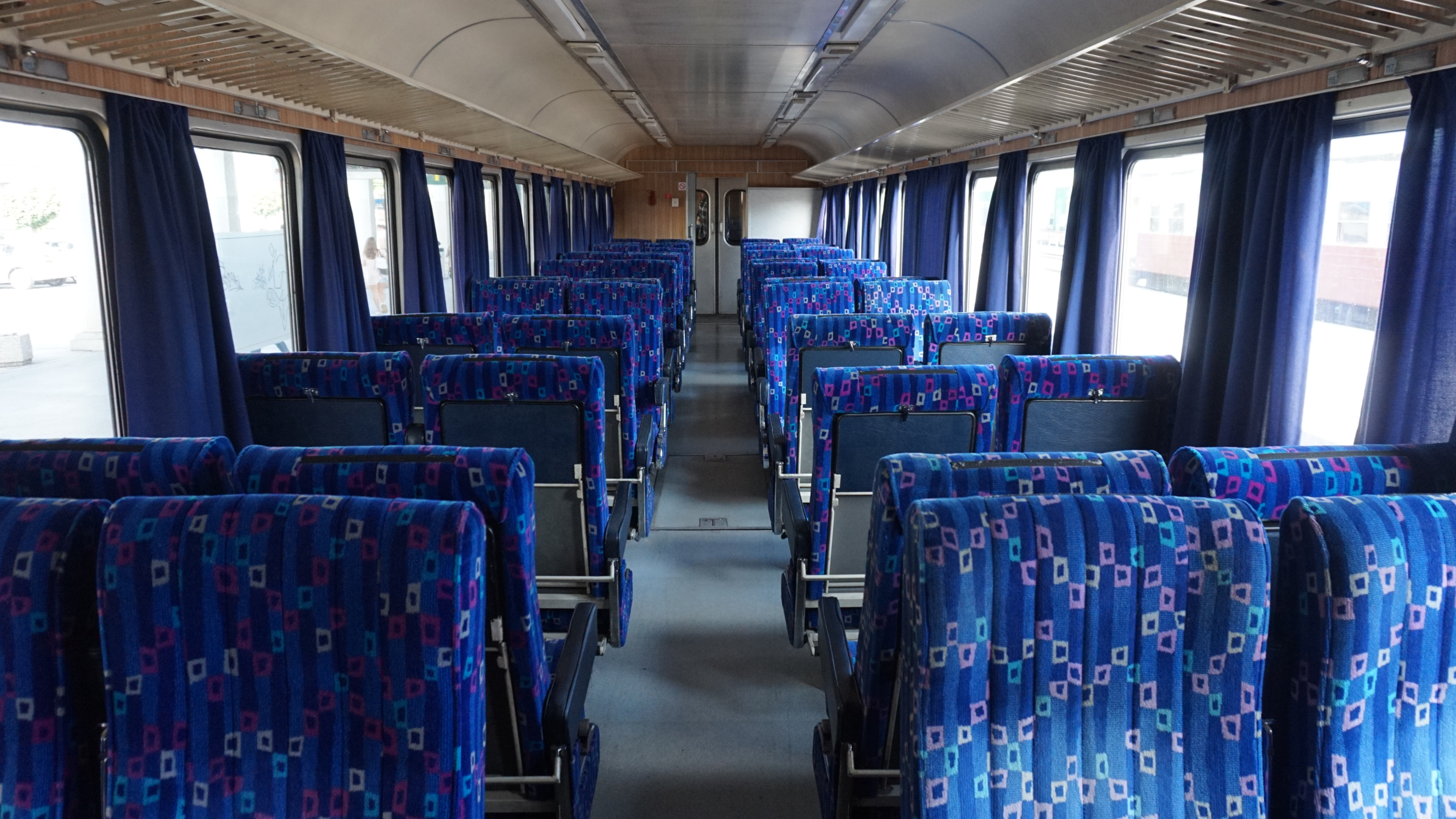 Interior of the passenger DMU SŽ 711. Despite their age (made in 1970) they're one of the best multiple units of Slovenian Railways, equipped with comfortable revolvable seats and air conditioning.